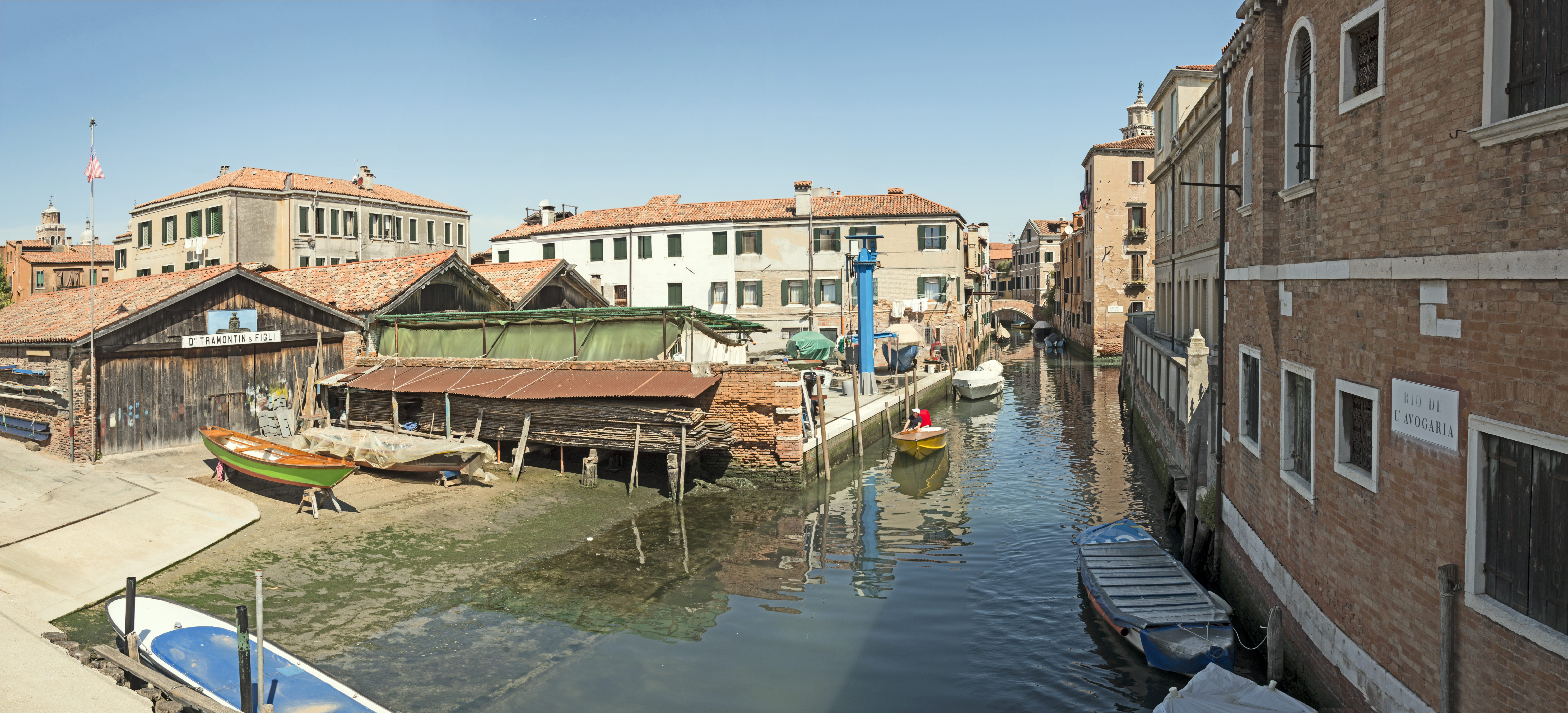 Rio dell'Avogaria to Venice. The rio and Squero Tramontin, seen from Ponte Sartorio.